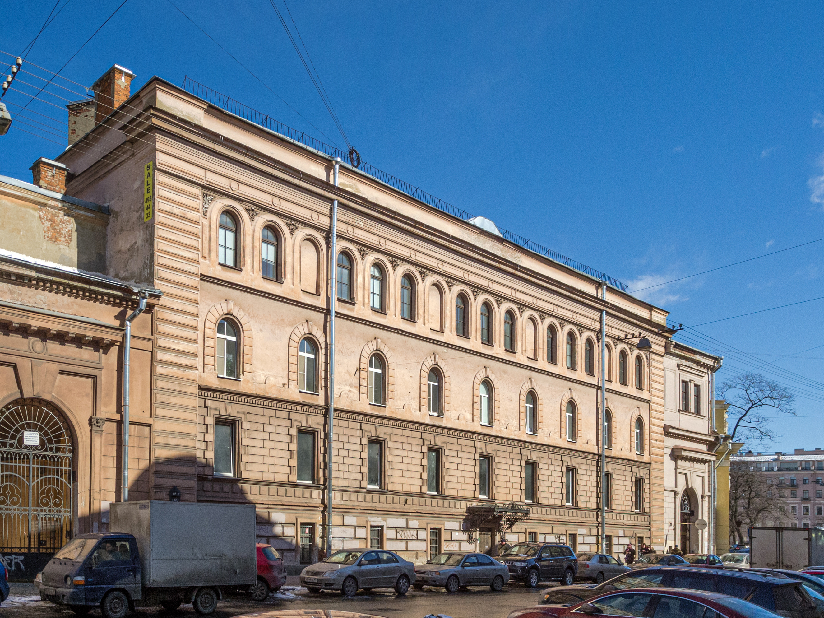 4, Italianskaya Street in Saint Petersburg.